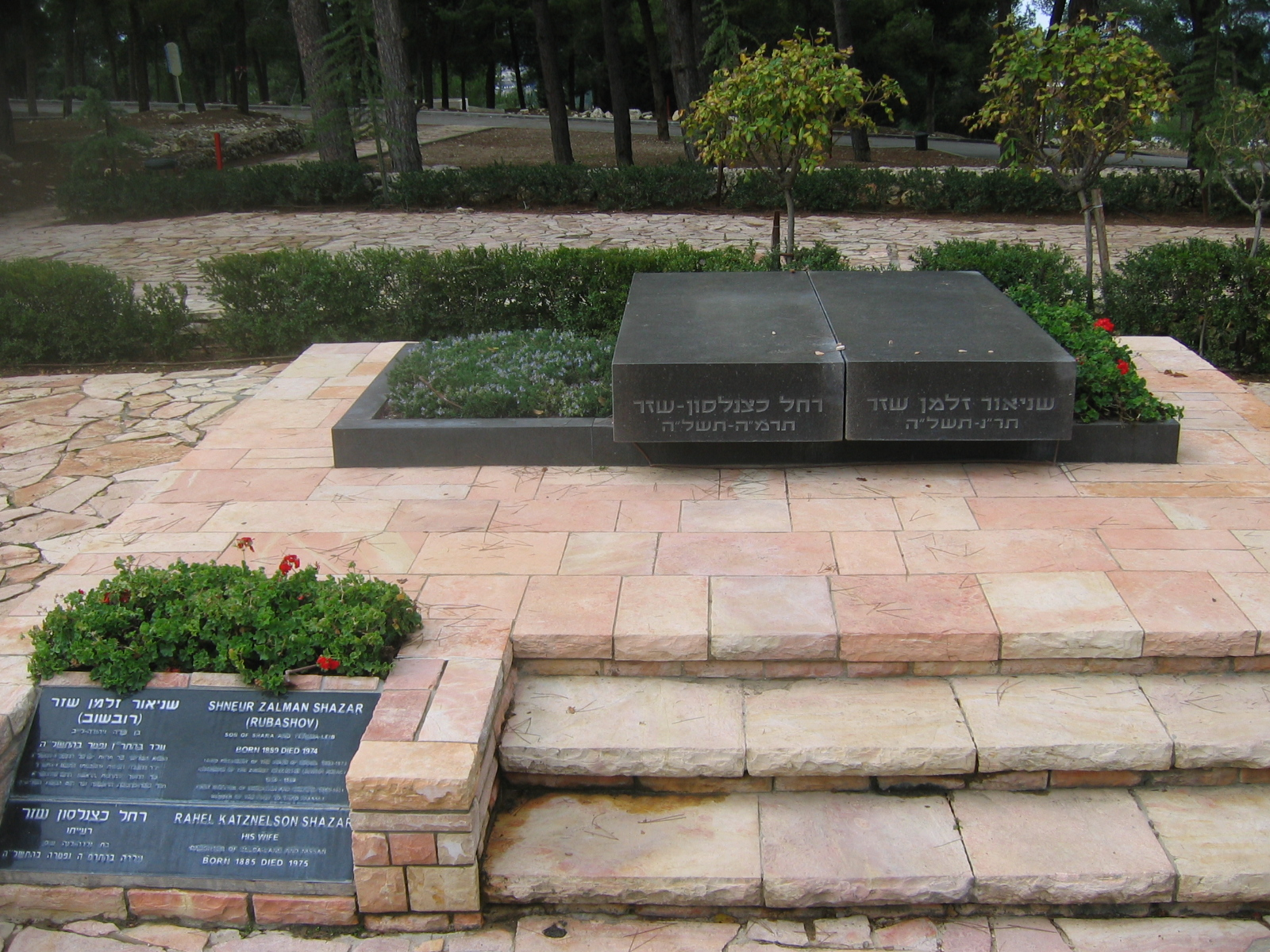 The grave of Shneur Zalman Shazar (Rubashov), president of Israel